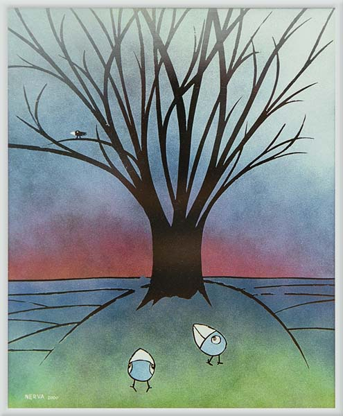 "Come Down of There"